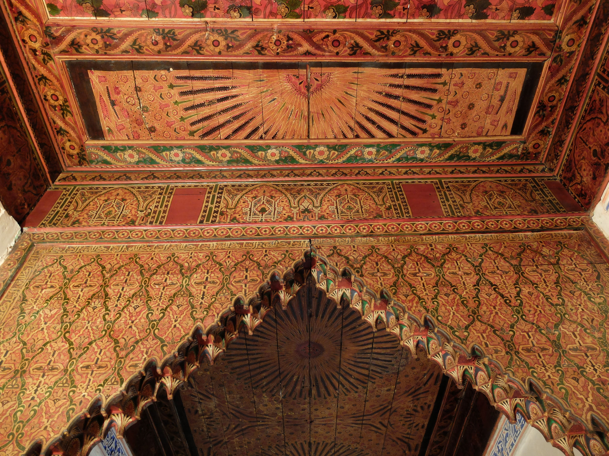 The Douiria of Mouassine, now the Mouassine Museum. Ceiling in one of the side rooms.